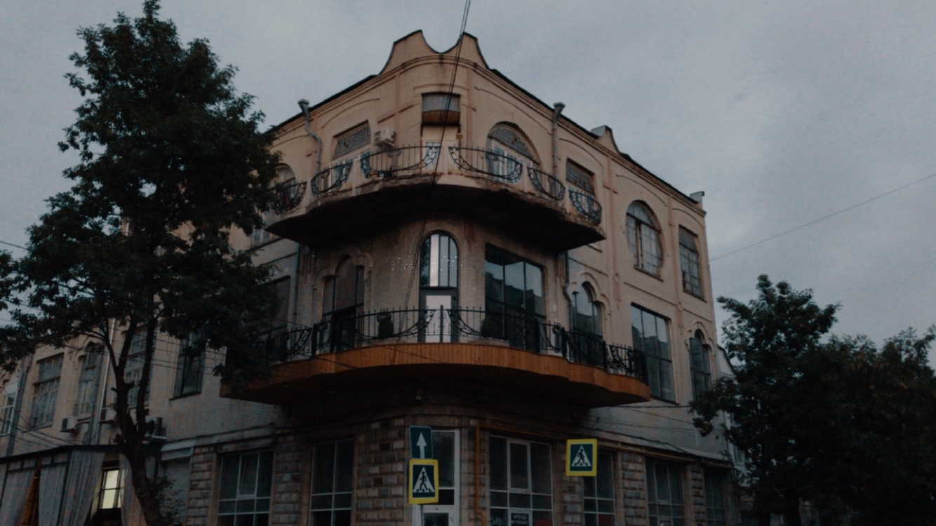 Sverdlova Street in Astrakhan